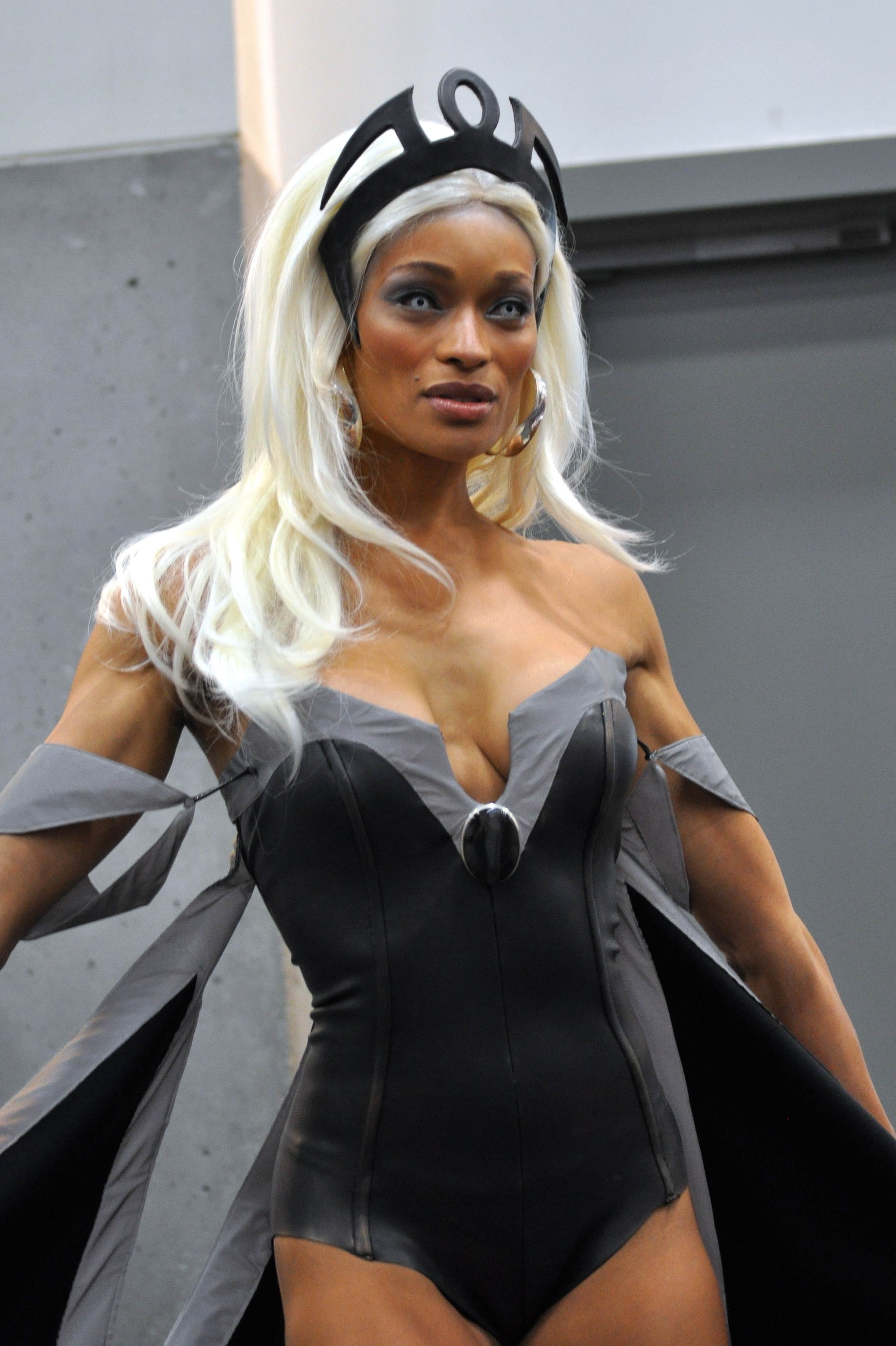 Cosplay at San Diego Comic-Con 2013.